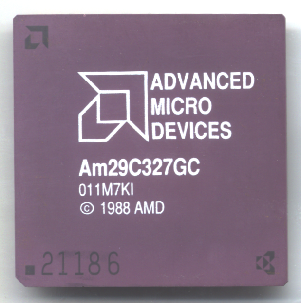 IC photo